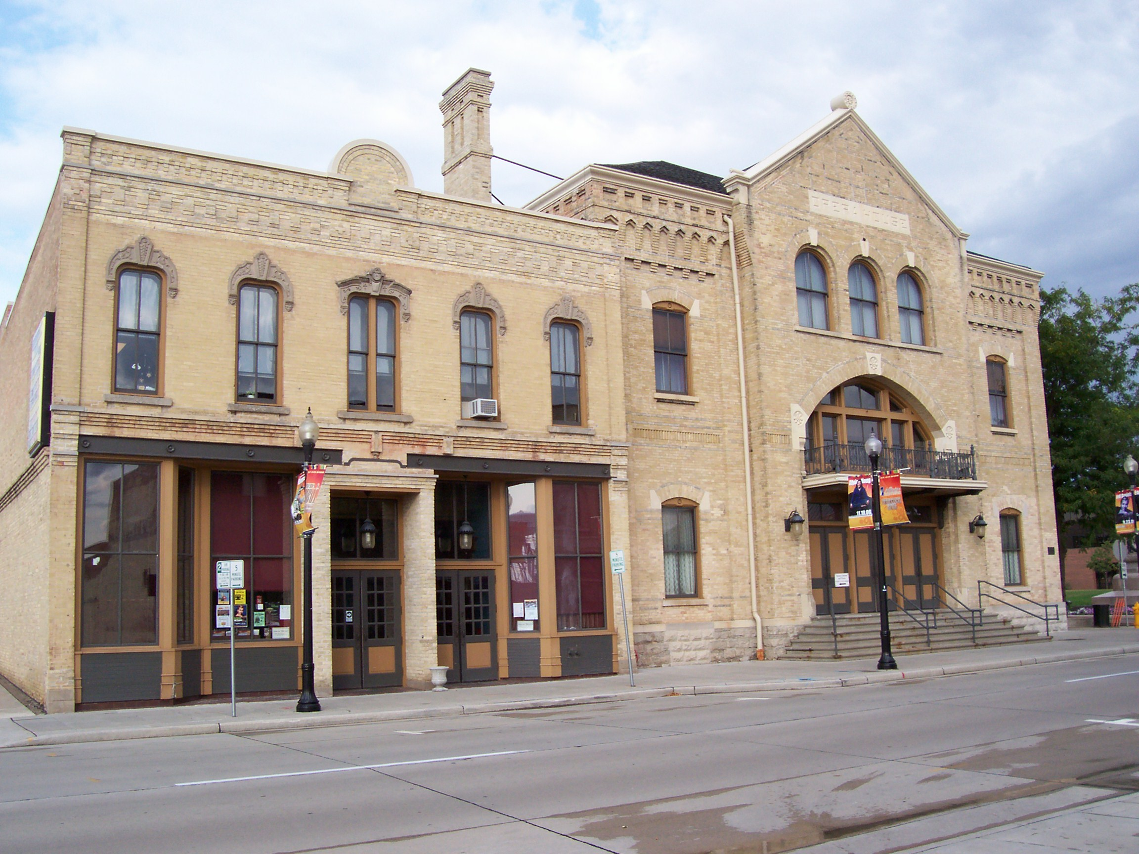 A picture of the Grand Opera House in Oshkosh, Wisconsin. This image was taken September 7, 2006 by User:Royalbroil